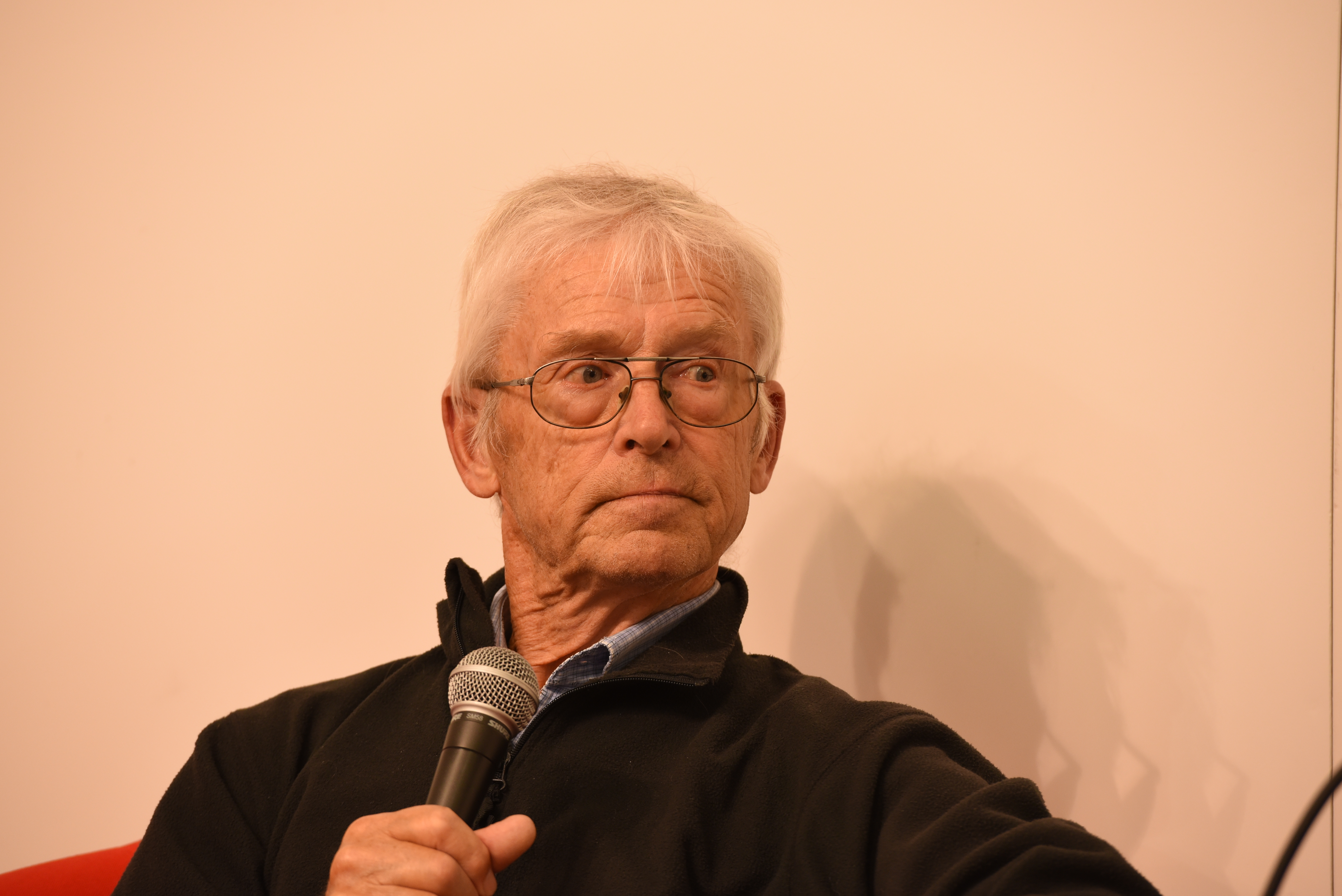 The writer Nalle Valtiala at Göteborg Book Fair 2016.